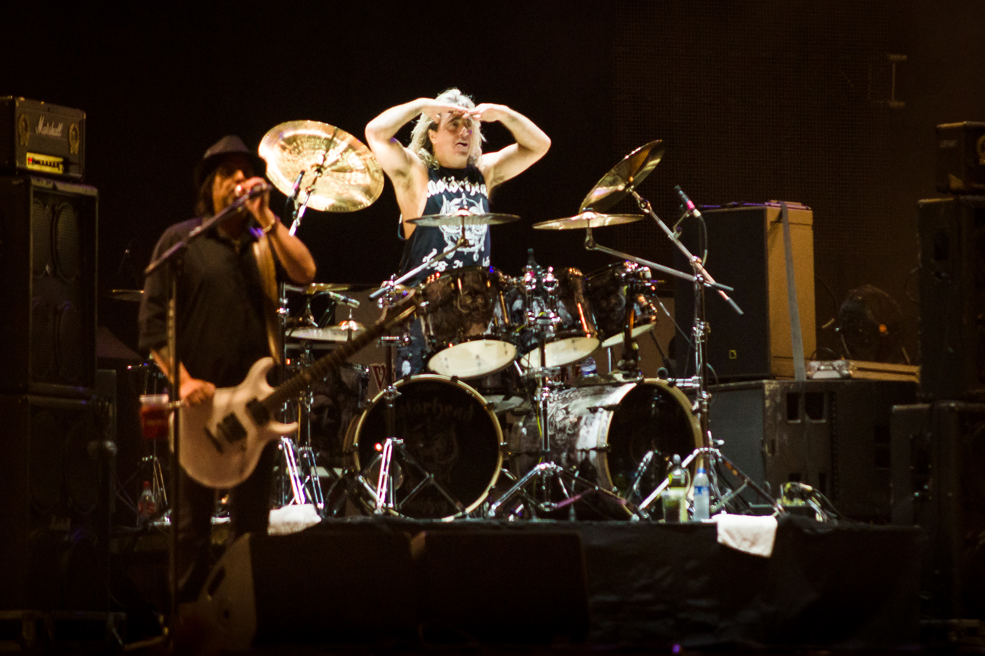 Mikkey Dee, drummer of Motorhead band. Ursynalia 2013 Warsaw Student Festival, Poland. This photo was taken with Sony SLT-A77 camera, thanks to cooperation with Sony Poland.You can see all photographs in category Taken with Sony SLT-A77. English | polski | +/−